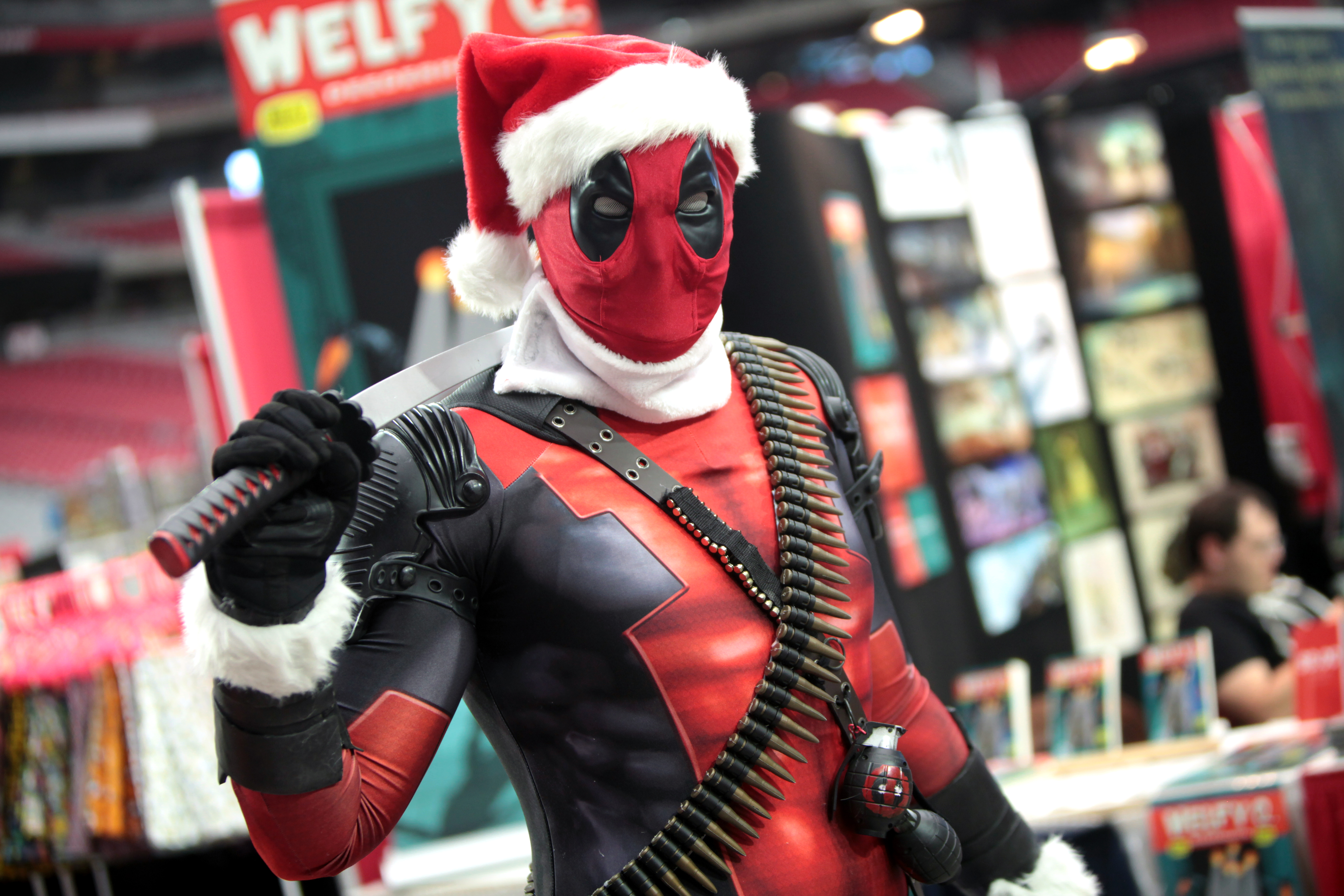 Deadpool cosplayer at the 2015 Phoenix Comicon Fan Fest at the University of Phoenix Stadium in Glendale, Arizona.